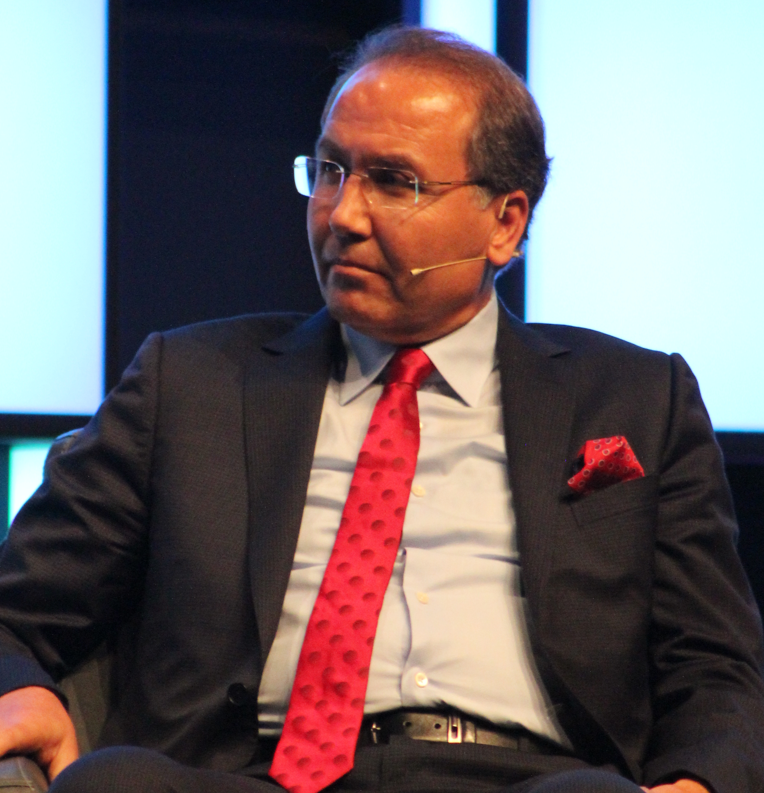 Cengiz Durmuş at 2016 Turkey Innovation Week